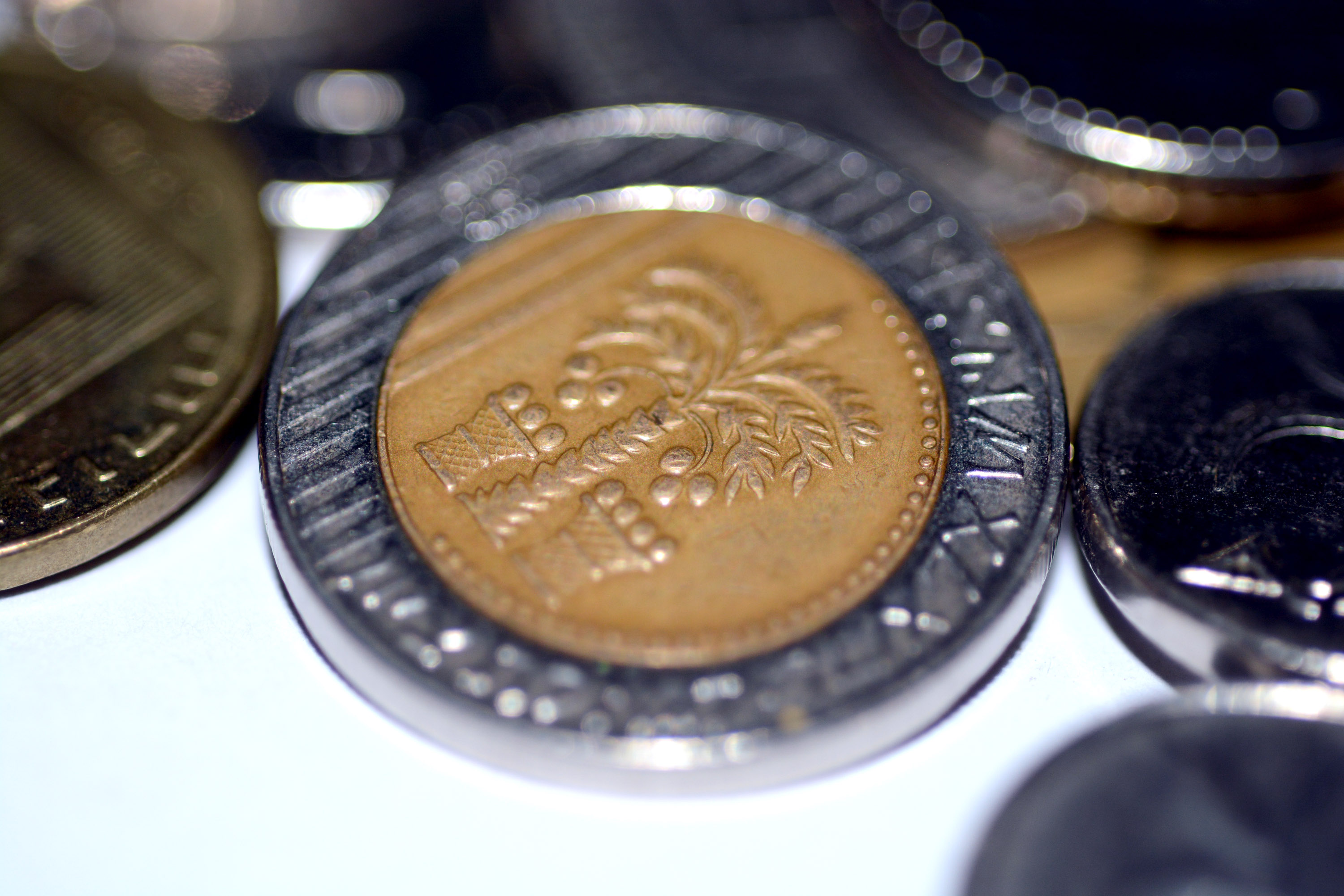 10 Israeli New Shekels Coin (10 NIS)